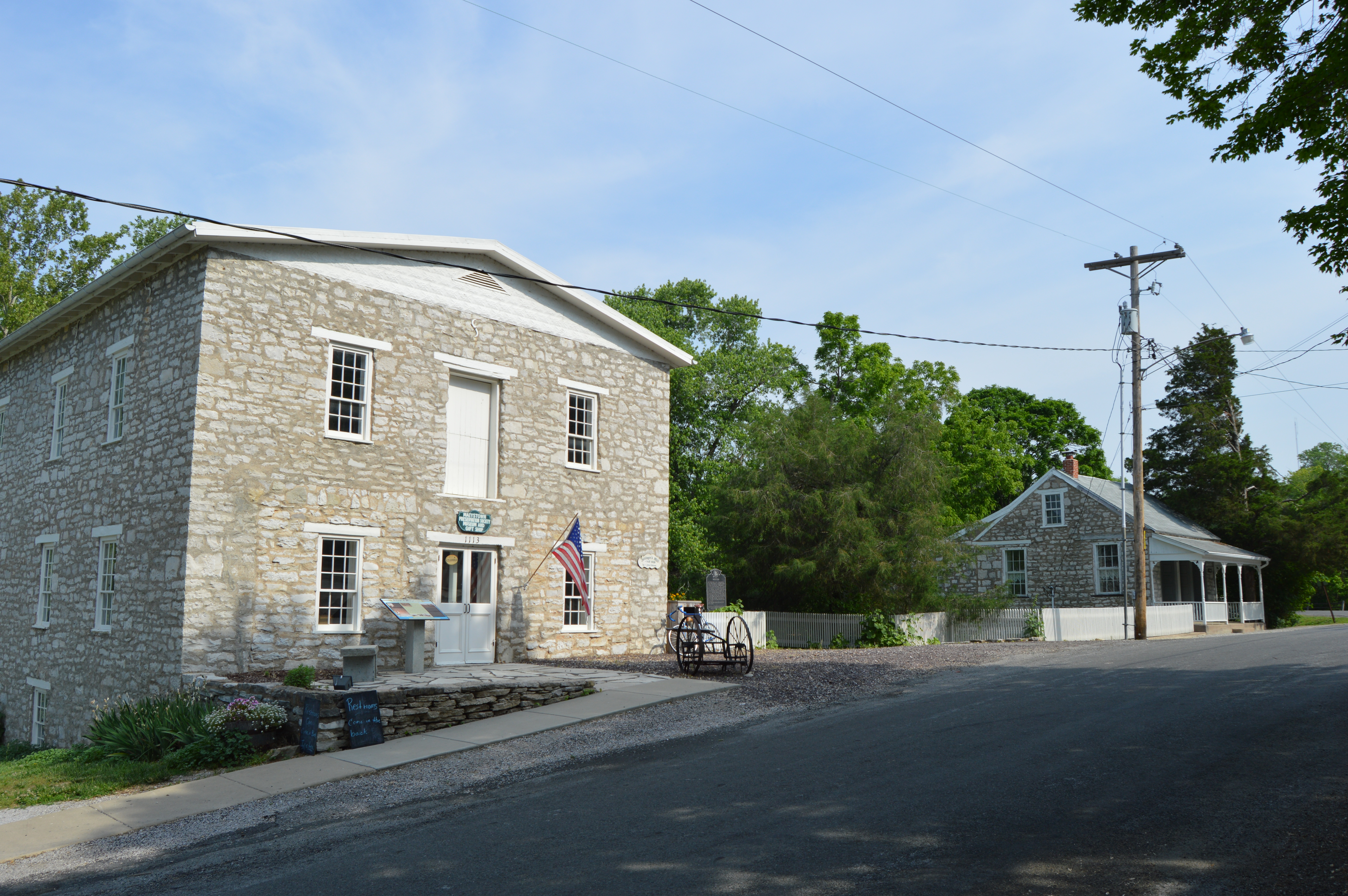 Buildings on the western side of Mill Street at the Franklin Street intersection in Maeystown, Illinois, United States. The nearer building is Zeitinger's Mill, built in 1859. Virtually the entire community is part of the Maeystown Historic District, a historic district that is listed on the National Register of Historic Places.